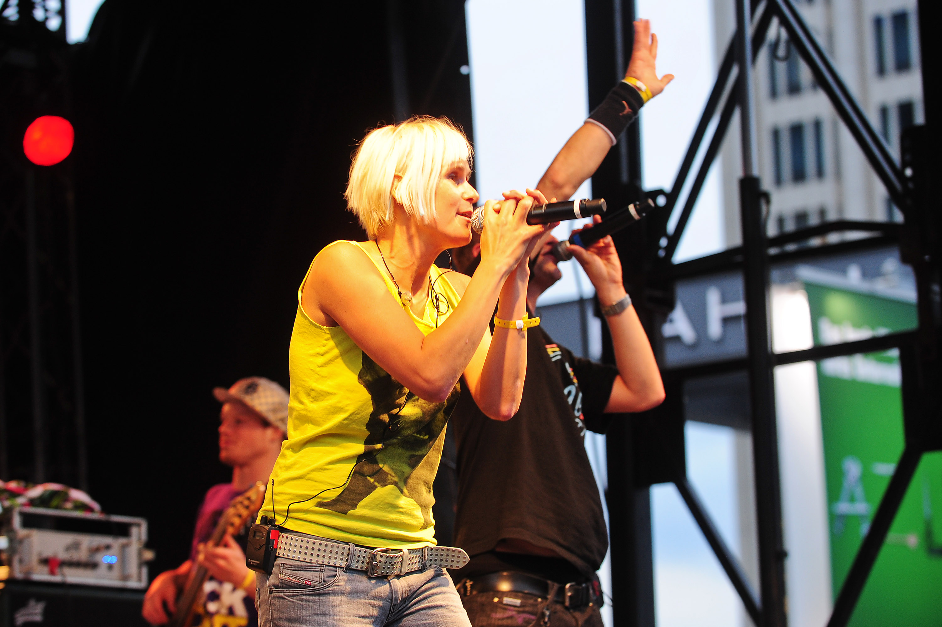 Mono & Nikitaman auf der Demonstration "Freiheit statt Angst" 2009